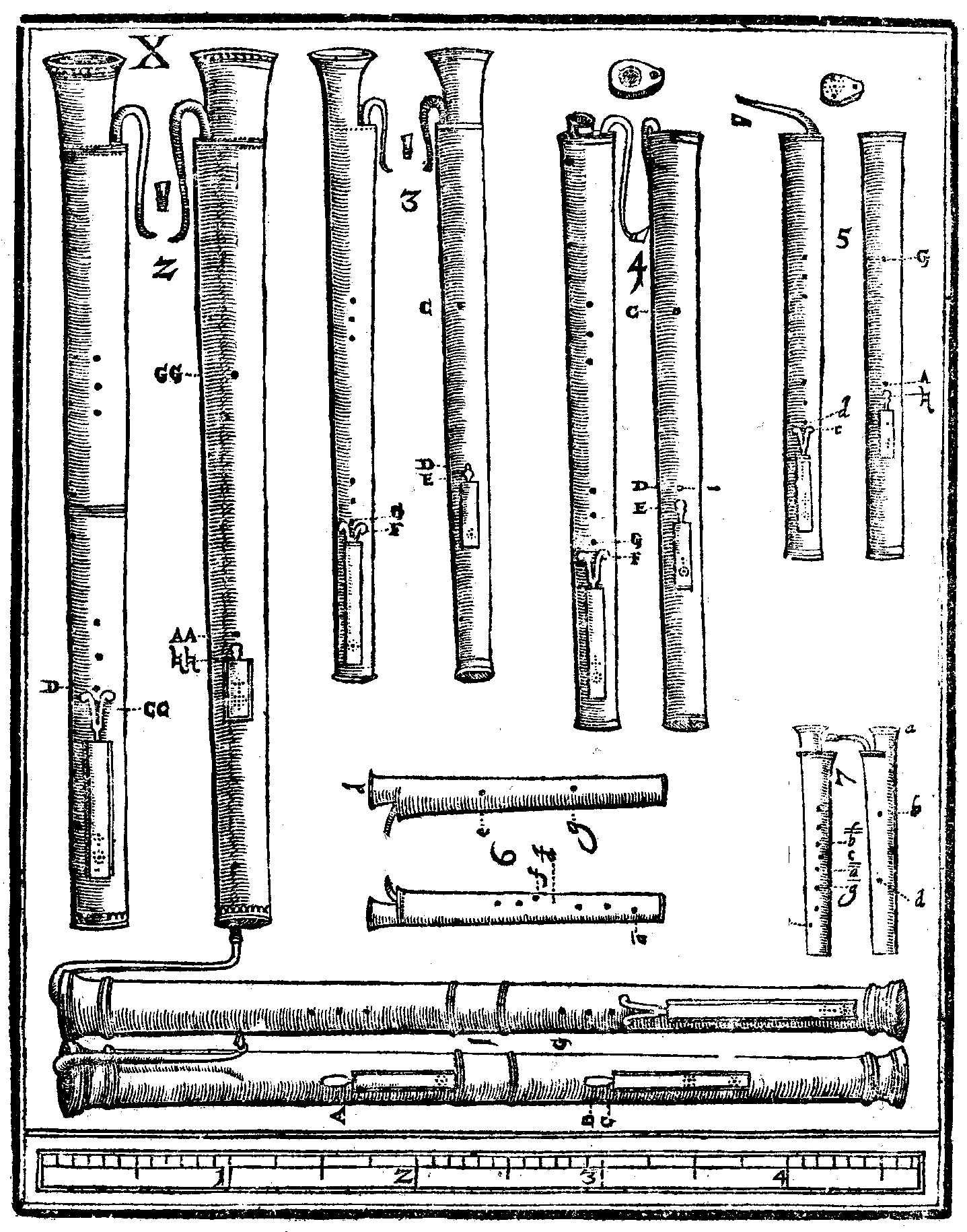 Modification of File:Syntagma07.png